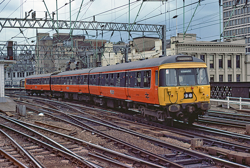 AM11, BR class 311 EMU 311092, formed of vehicles 76403+62163+76422, in Strathclyde PTE livery at Glasgow Central in 1984. Scanned from a Kodachrome 35mm slide.